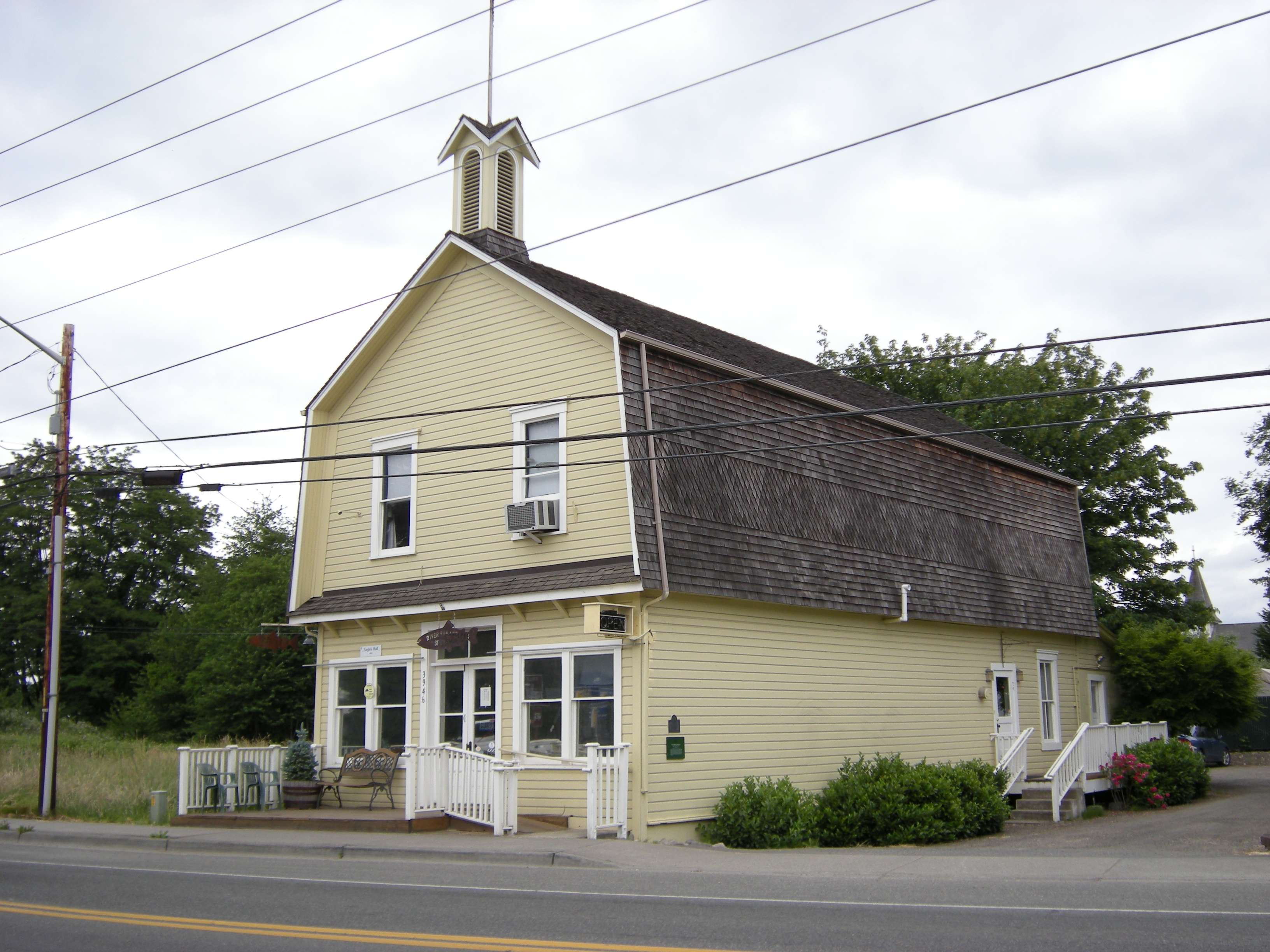 Oddfellows (later Eagles/F.O.E.) Hall, built by I.O.O.F. Lodge No. 148. 3940 Tolt Avenue, Carnation, Washington. The building is listed on the National Register of Historic Places. For a bit more about the building, see King County Landmarks: Oddfellows/ Eagles Hall (1895), Carnation, .